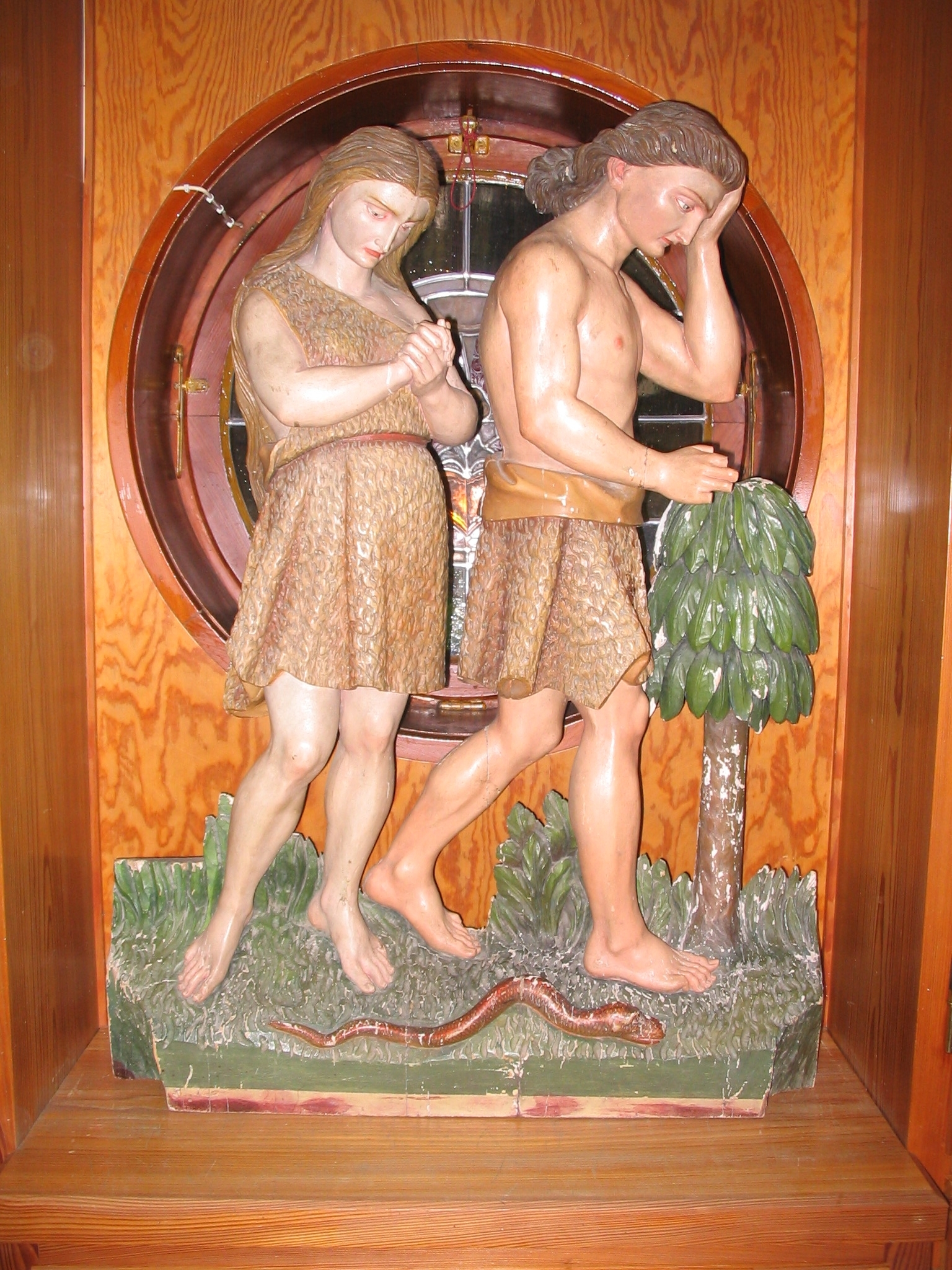 Adam and Eve with fur garments